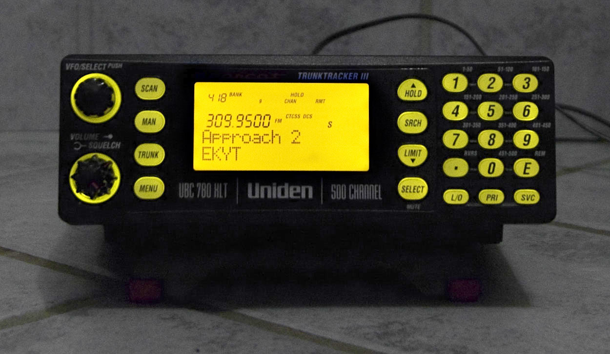 Uniden Bearcat 780XLT radio scanner